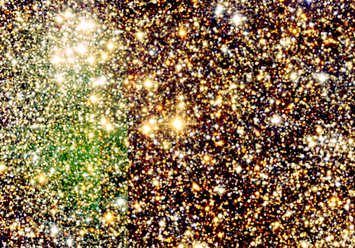 A zoomed-in picture of the evolved red supergiant star Stephenson 2-18, picture processed through 2MASS survey.